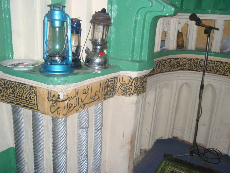 Kizimkazi Mosque inside view